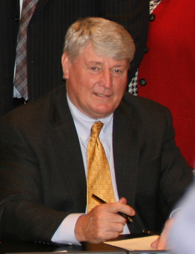 Speaker Mike Busch